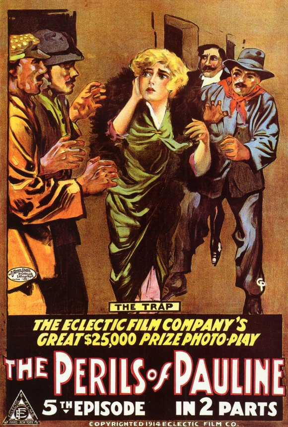 Poster for the American film serial The Perils of Pauline (1914).